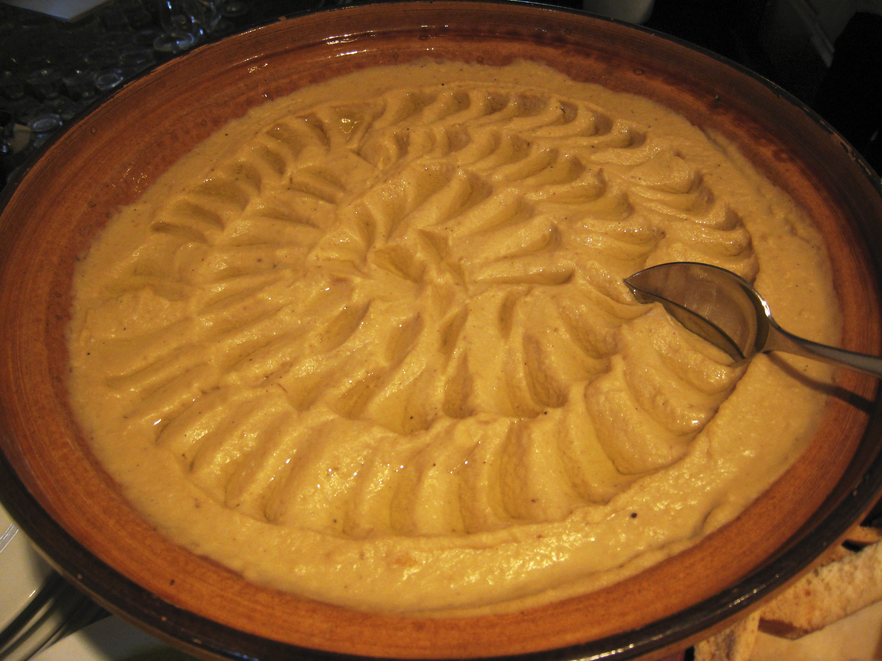 Hummus bia tahini